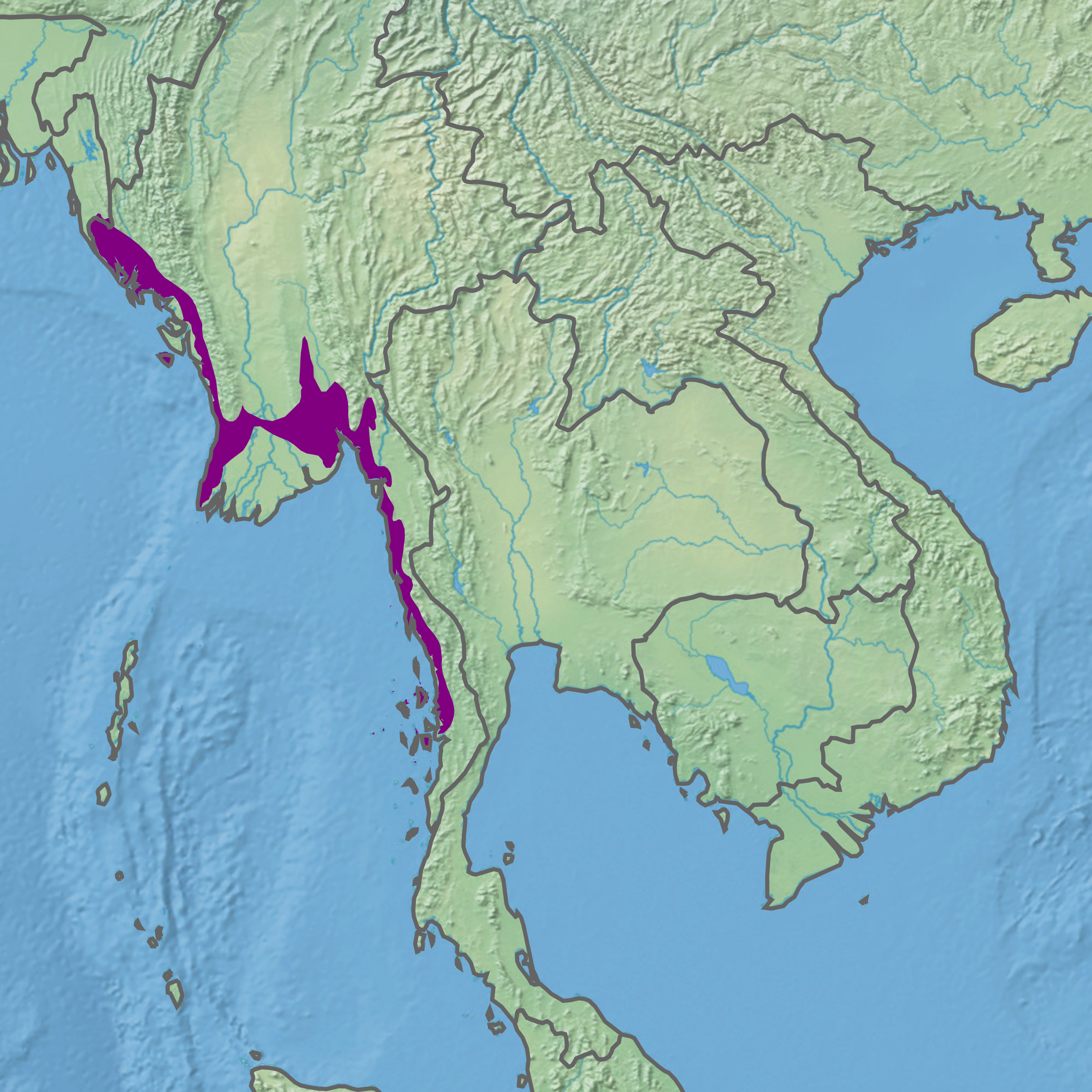 Ecoregion IM0132 - Myanmar coastal rain forests (in purple)